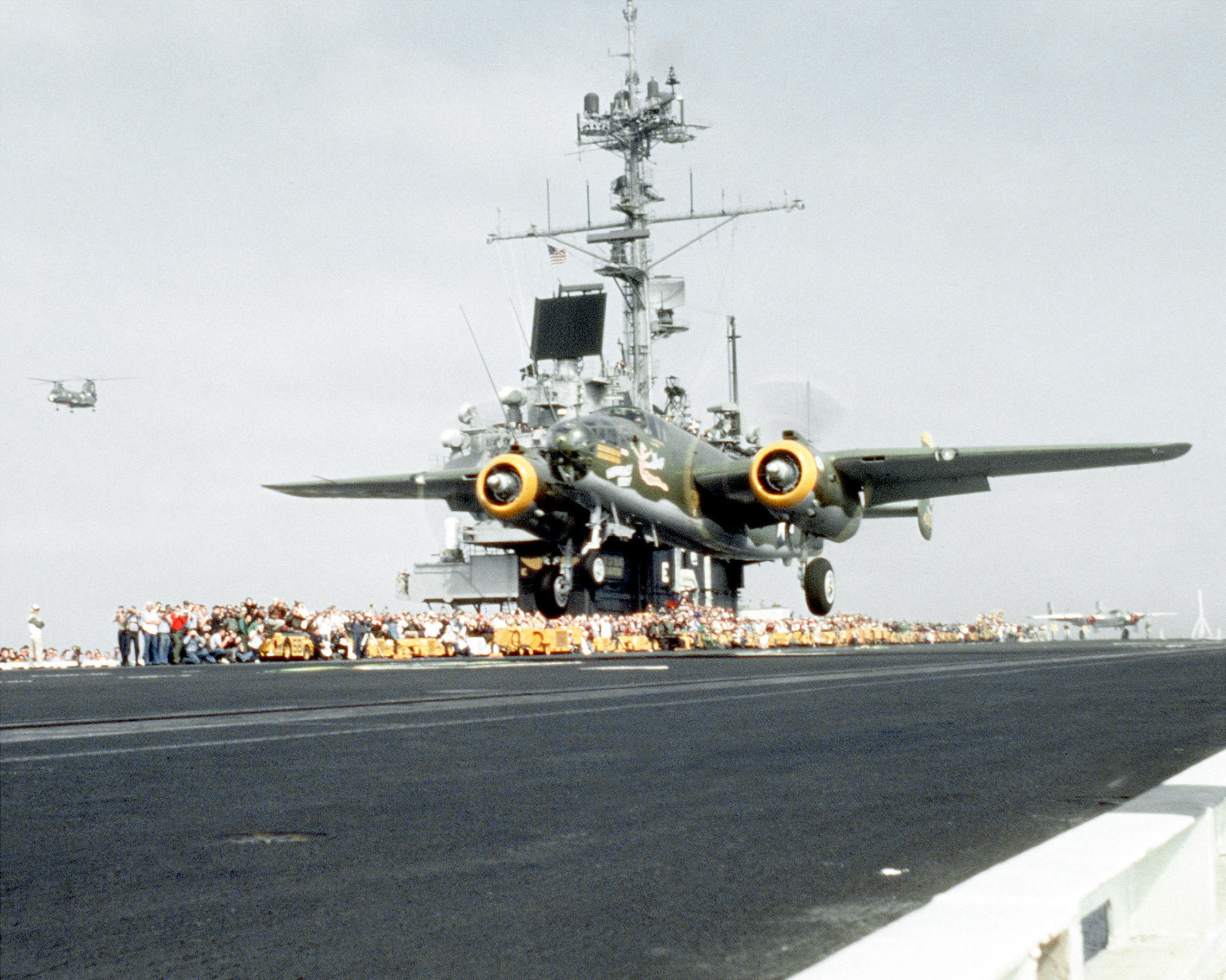 The restored World War II B-25 Mitchell bomber aircraft "Heavenly Body" takes off from the deck of the aircraft carrier USS RANGER (CV-61). It and another B-25 are being launched in a re-enactment of "Doolittle's Raid" of April 18, 1942, during which 16 B-25's were launched from the aircraft carrier USS HORNET (CV-8) in the first attack on the Japanese mainland.